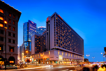 Sheraton Hotel And Towers in Hong Kong